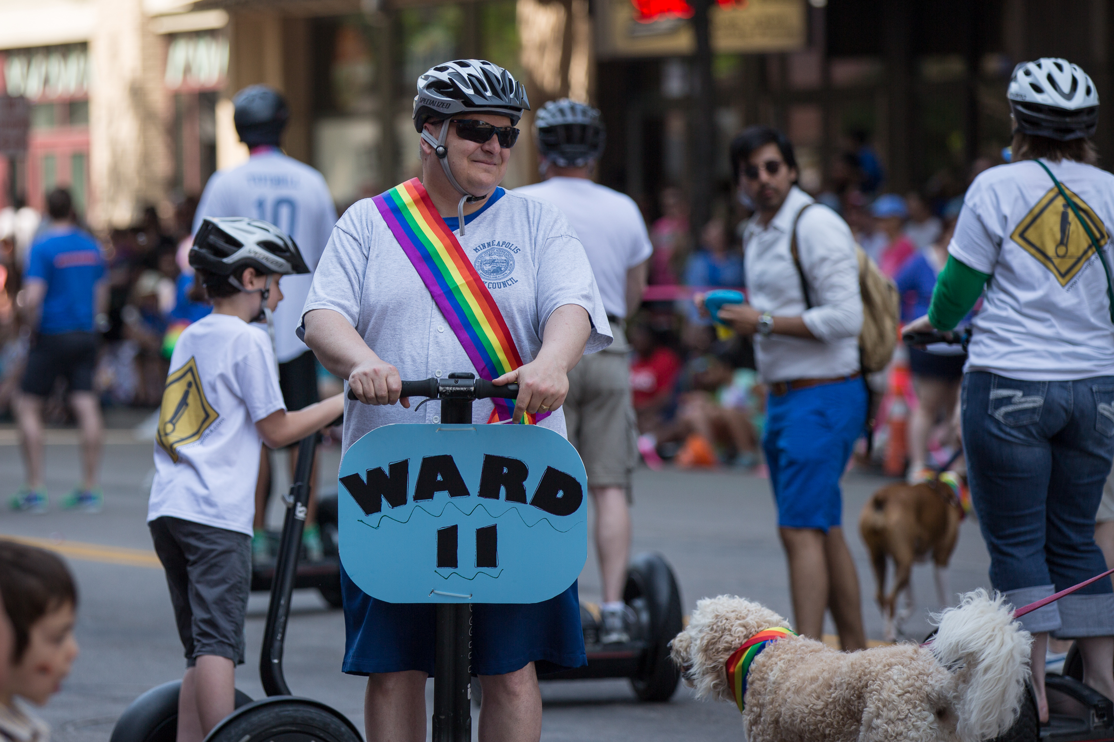 2013 Twin Cities Pride Parade, Minneapolis.